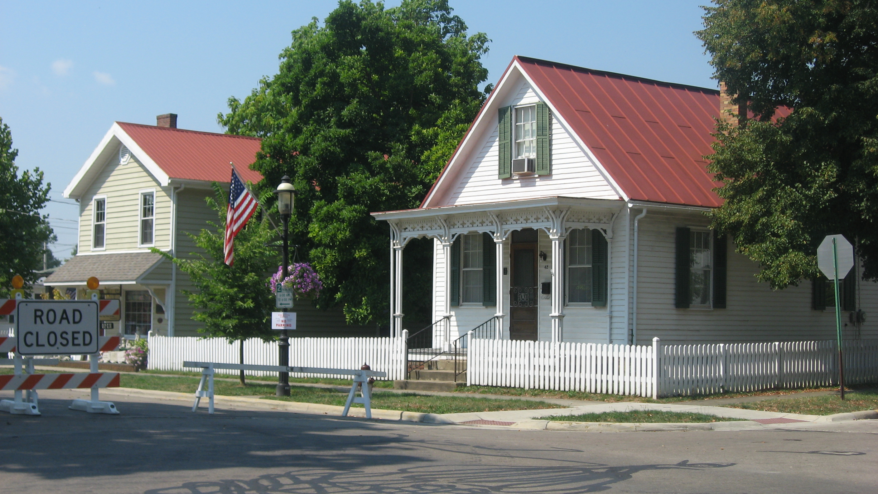 Houses on the western side of the first block of N. High Street in Canal Winchester, Ohio, United States. This block is part of the North High Street Historic District, a historic district that is listed on the National Register of Historic Places.